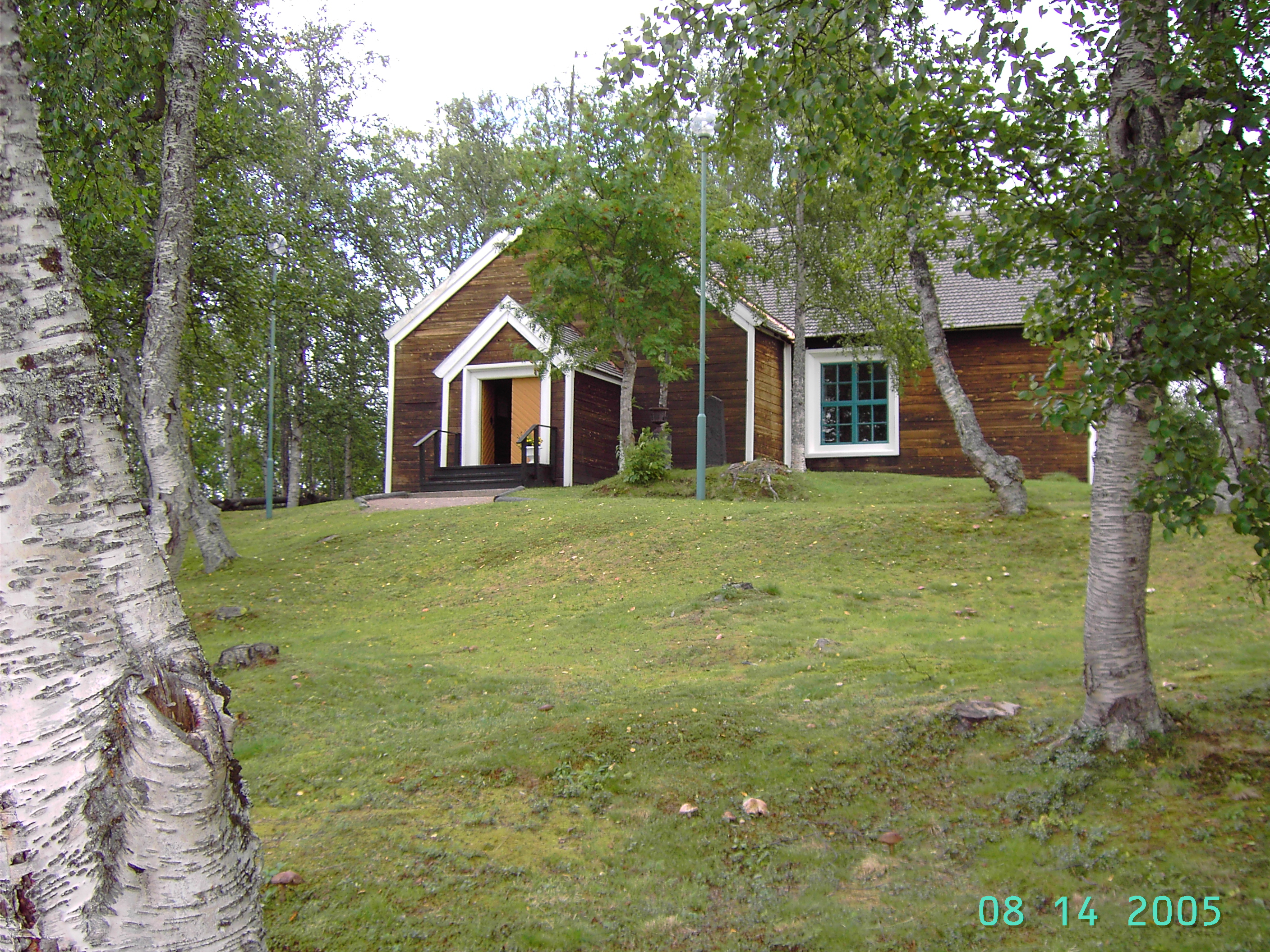 Old Church in Gällivare